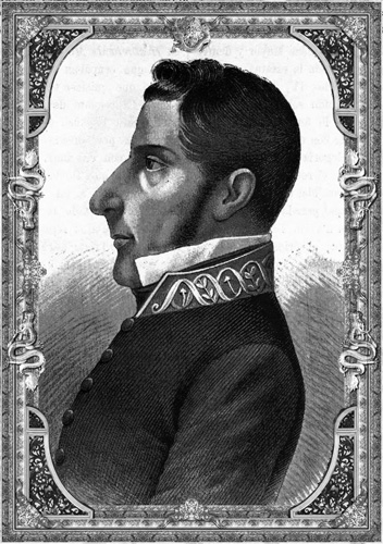 Self-portrait of Antonio Pérez Martínez y Robles, Lithograph (1870-1907).